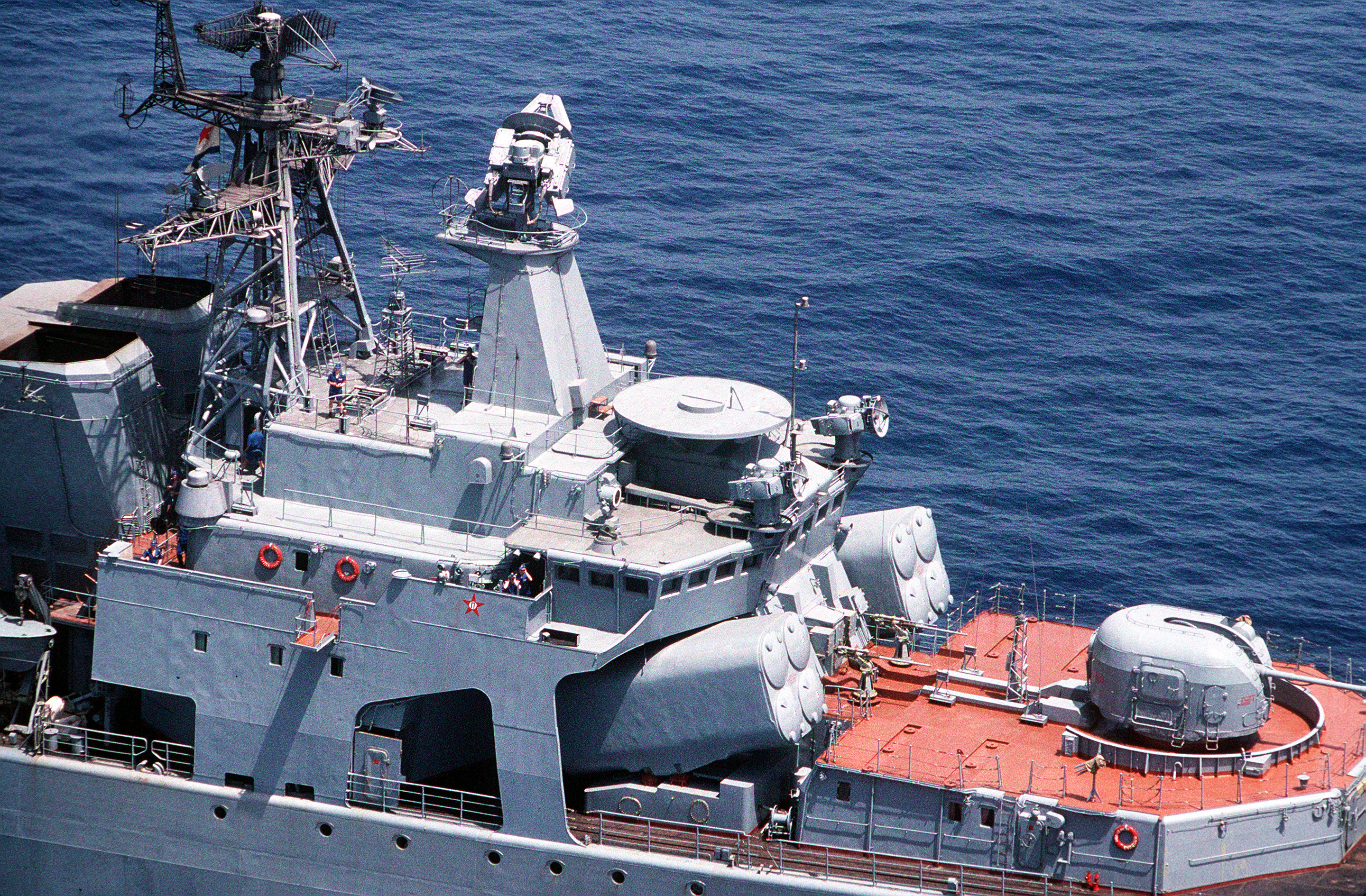 DNST8809283, A view of radar equipment, SS-N 14 missile launchers and 100mm dual purpose guns aboard the Soviet Udaloy class guided missile destroyer Vitse-Admiral Kulakov (DDG-659).